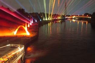 The picture shows the "KulturKanal" at the "Extra Schicht" event in 2008.